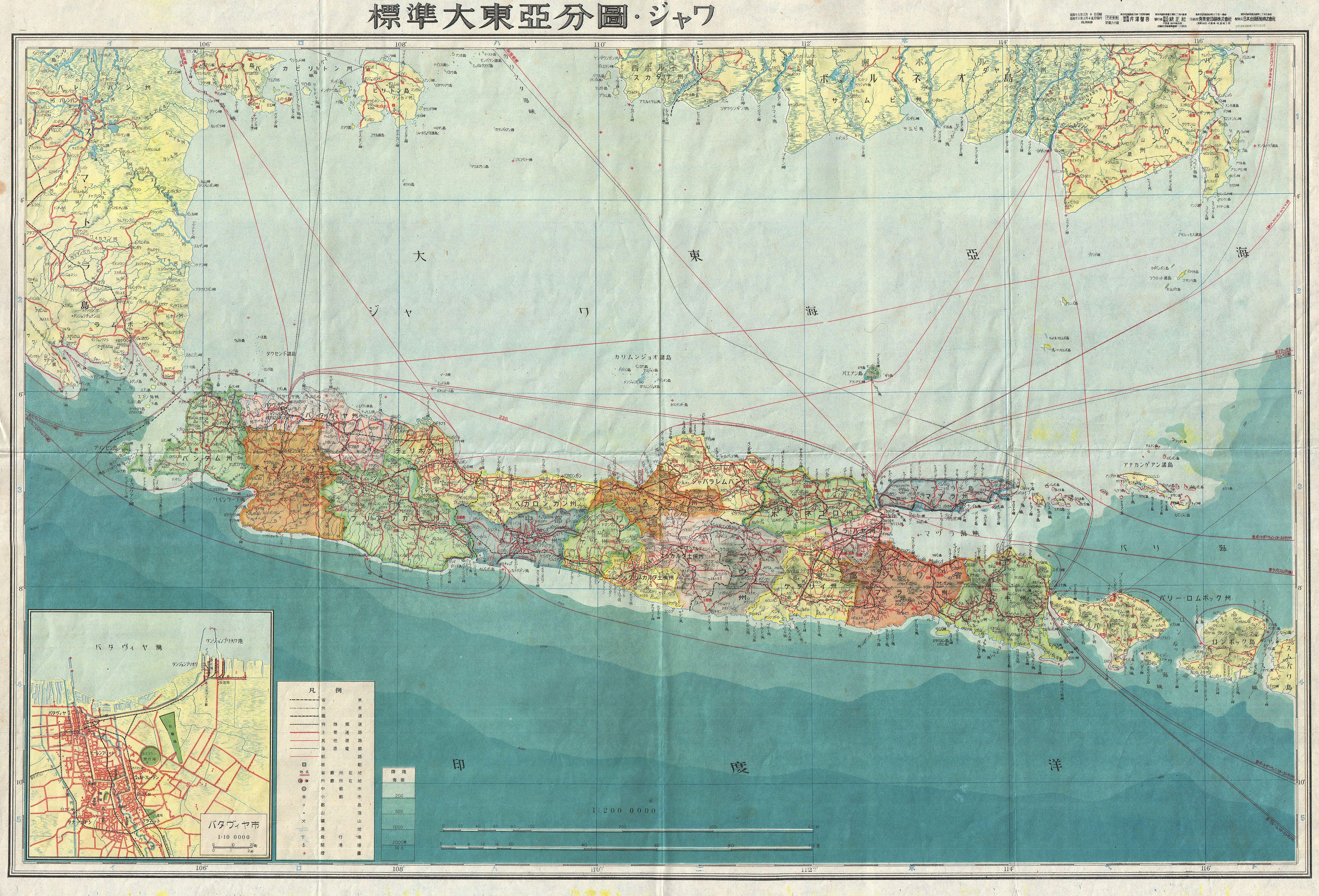 A stunning large format Japanese map of Java dating to World War II. Covers the entirety of the island with a large inset city plan of Jakarta (Djakarta) in the lower left quadrant. Offers superb detail regarding both topographical and political elements. Notes cities, roads, trade routes on air, sea and land, and uses shading to display oceanic depths. Scale of 1:200,000. All text in Japanese. While Allied World War II maps of this region are fairly common it is extremely rare to come across their Japanese counterparts. This map was created as map no. 11 of a 20 map series detailing of parts of Asia and the Pacific prepared by the Japanese during World War II.